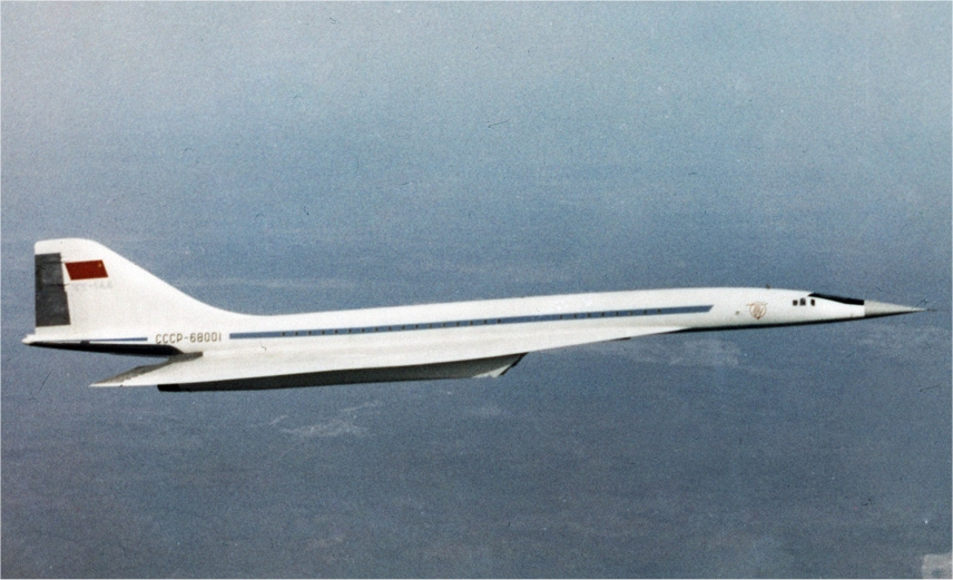 “Tu-144 passenger airliner”. A Tupolev Tu-144 supersonic passenger airliner. *